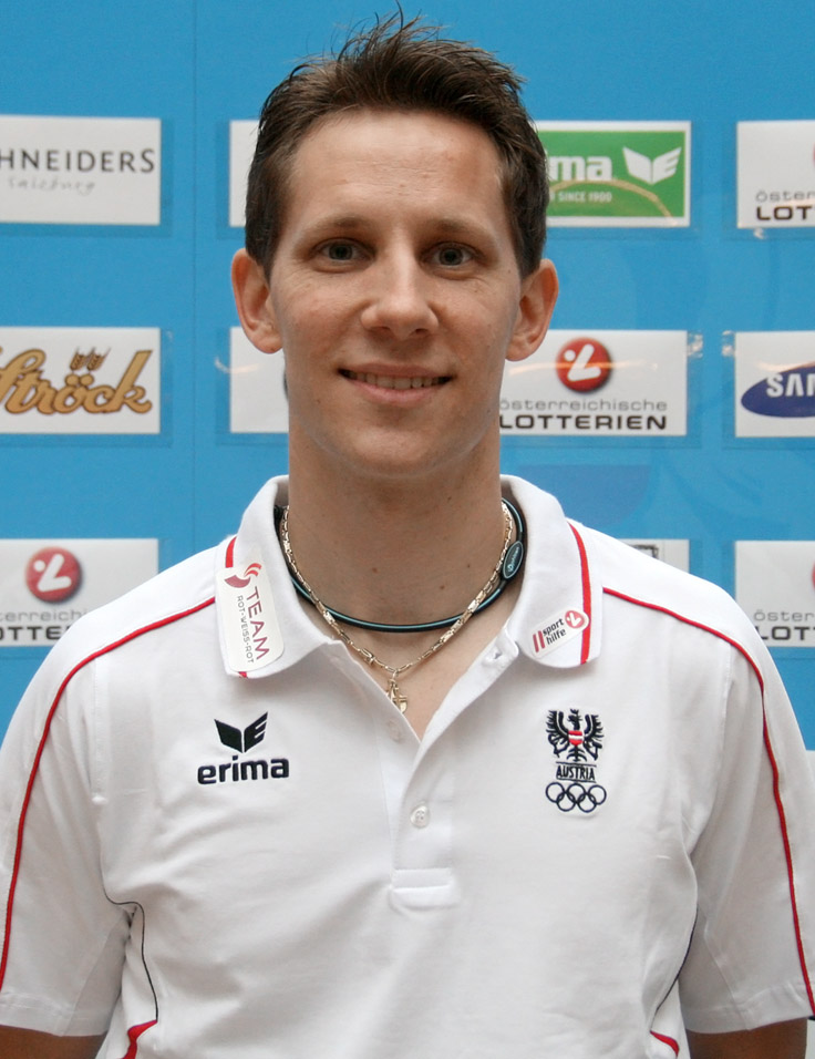 Table tennis player Robert Gardos at the hand-out of the Austrian teams official attire for the 2012 Summer Olympics in London (Marriott, Vienna).